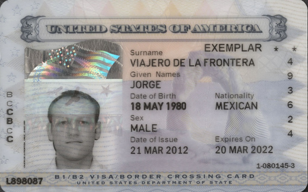 Specimen of the U.S. Border Crossing Card, issued by the State Department.